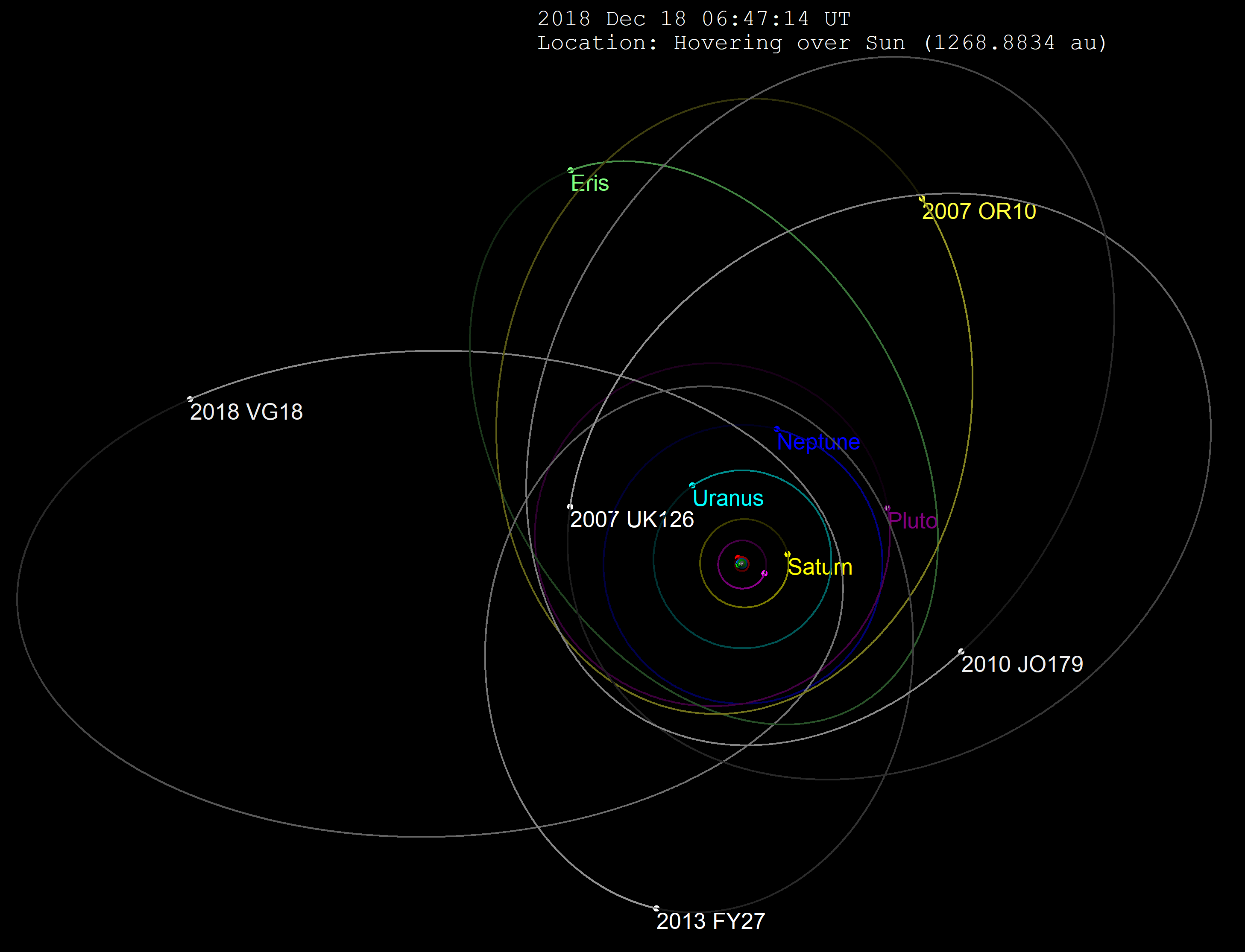 en:2018 VG18 orbit with Eris and others